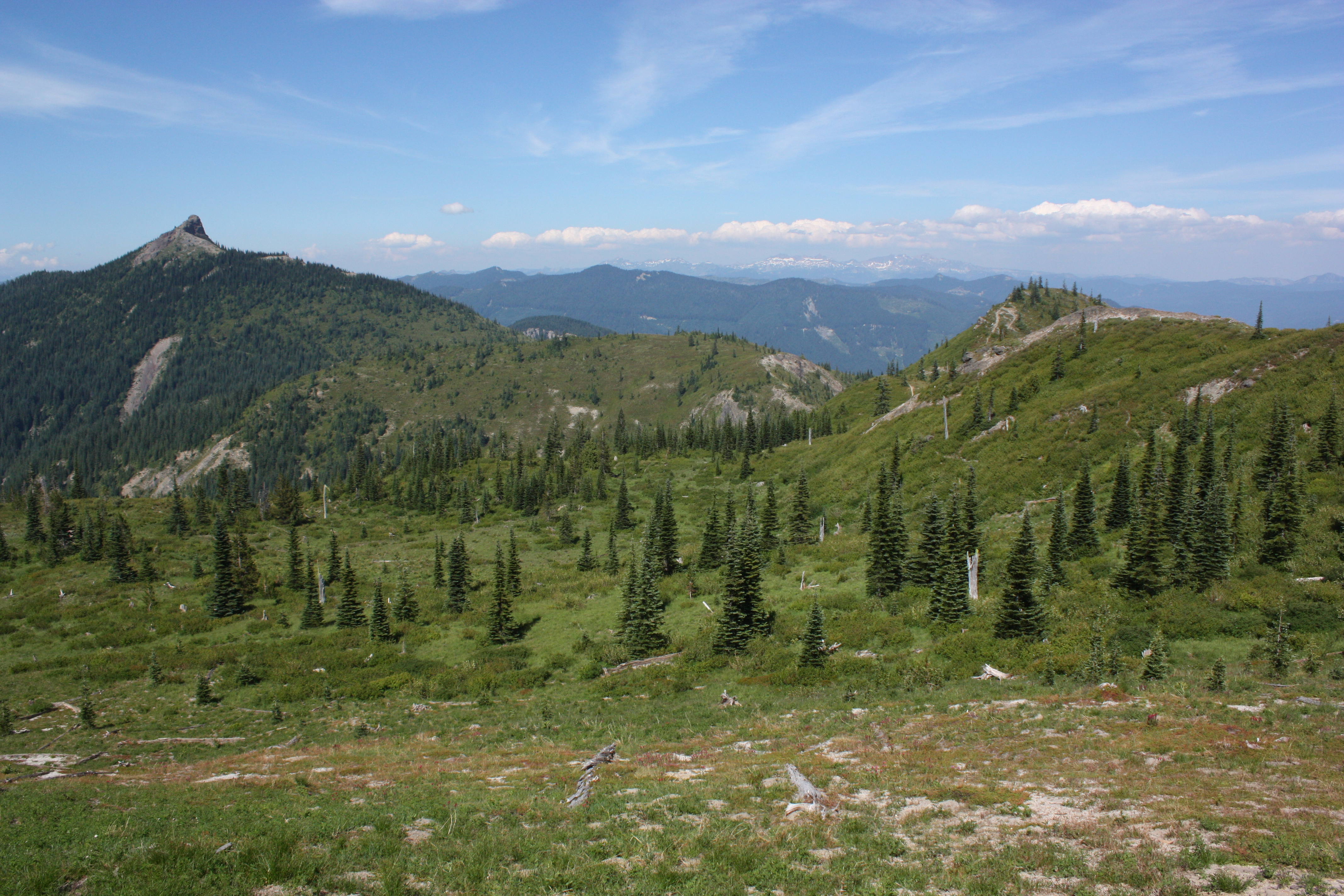 Sunrise Peak (5892 feet, 1796 m), left skyline Viewpoint location: Juniper Ridge Trail 261 Dark Divide Viewpoint elevation: 1670 meter (5481 ft) View direction: Northeast Location source: Garmin GPSmap 60CSx Location Datum: WGS84